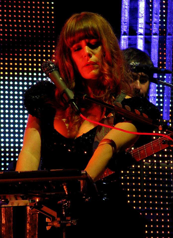 Jenny Lewis in one of last live performance of The Postal Service in Lollapalooza 2013